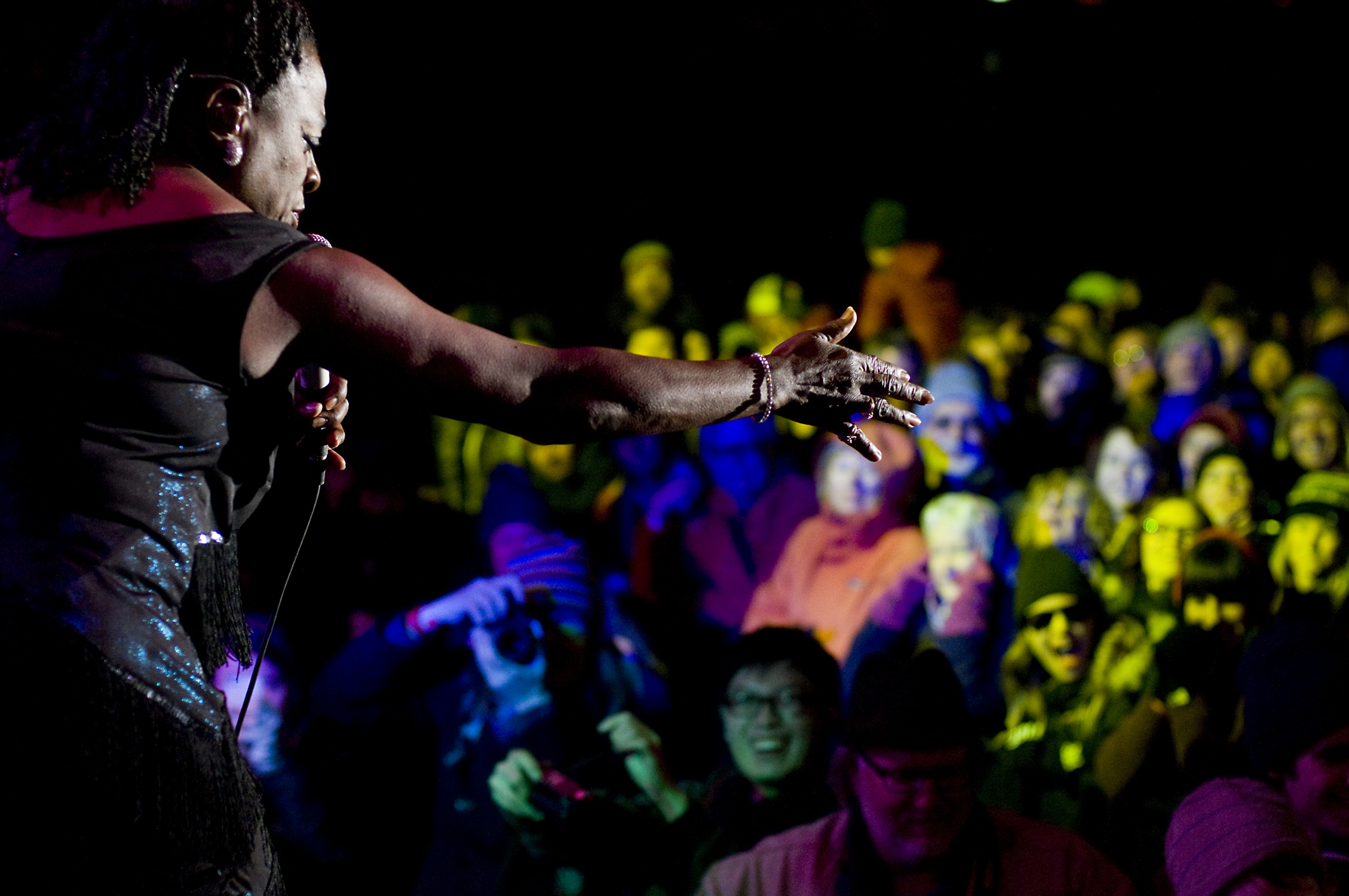 The headliner act of Treefort 2013, Sharon Jones and the Dap-Kings, wows the crowd Saturday night.